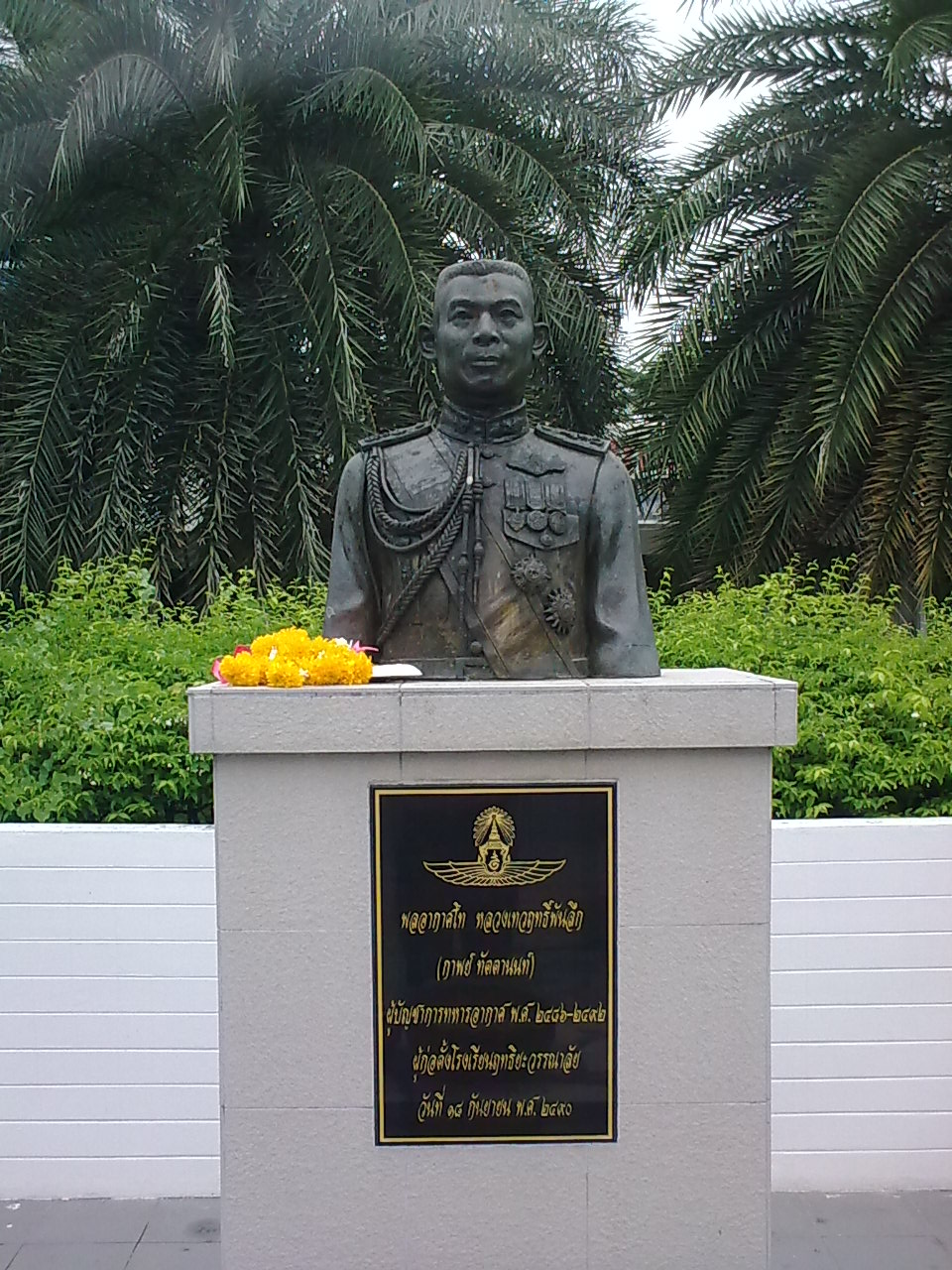 Air Marshal Luang Thewarit Phanluek statue, founder of Rittiyawannalai School